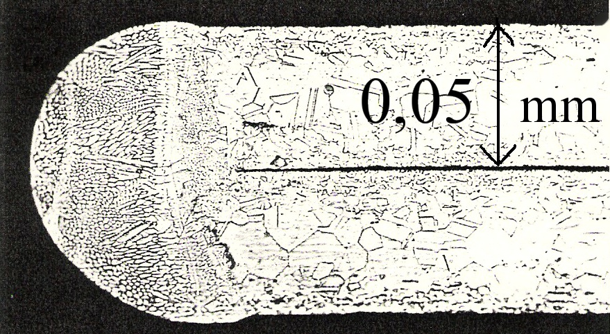 stainless steel membranes